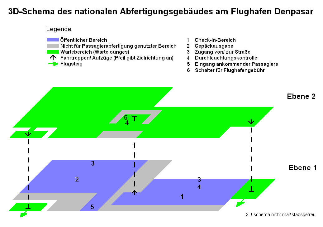 scheme of national terminal at Denpasar Airport